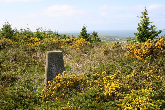 Mynydd Cefnamwlch trig.